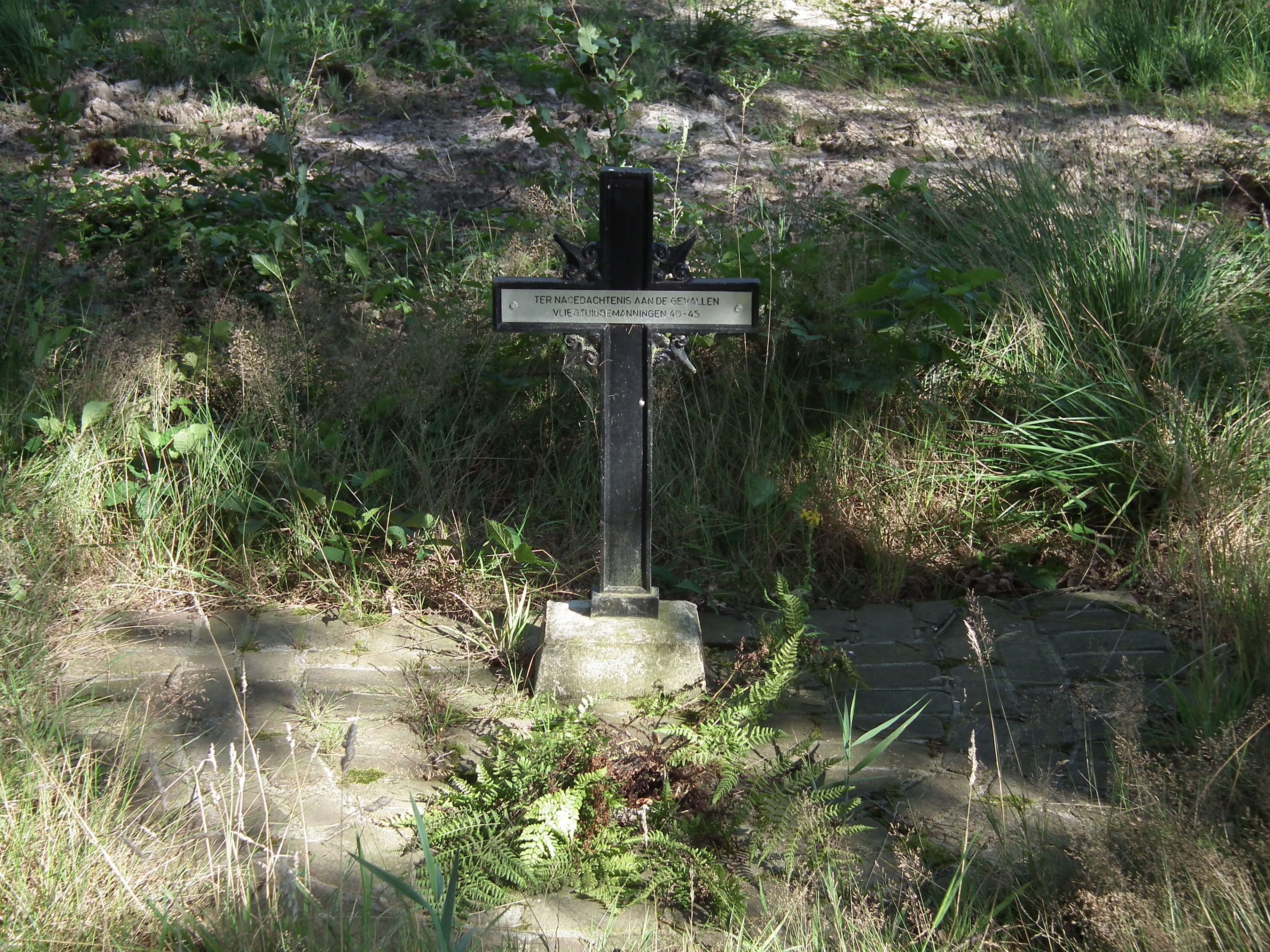 Memorial cross near the crossing of the Colusdijk with the Proosdijk. Placed in memory of the deceased crew of air planes that crashed here during World War II.